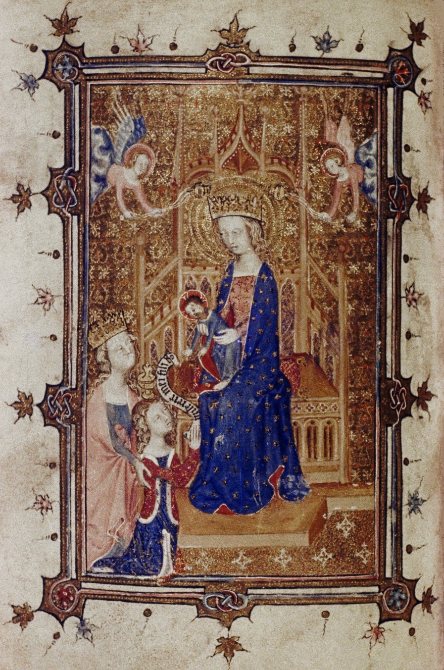 Donor portrait of Mary de Bohun with Mary Magdalene, the Virgin Mary and Child in so-called Bohun Psalter (Oxford, Bodleian Library, MS Auct. D. 4. 4, fol. 181v)